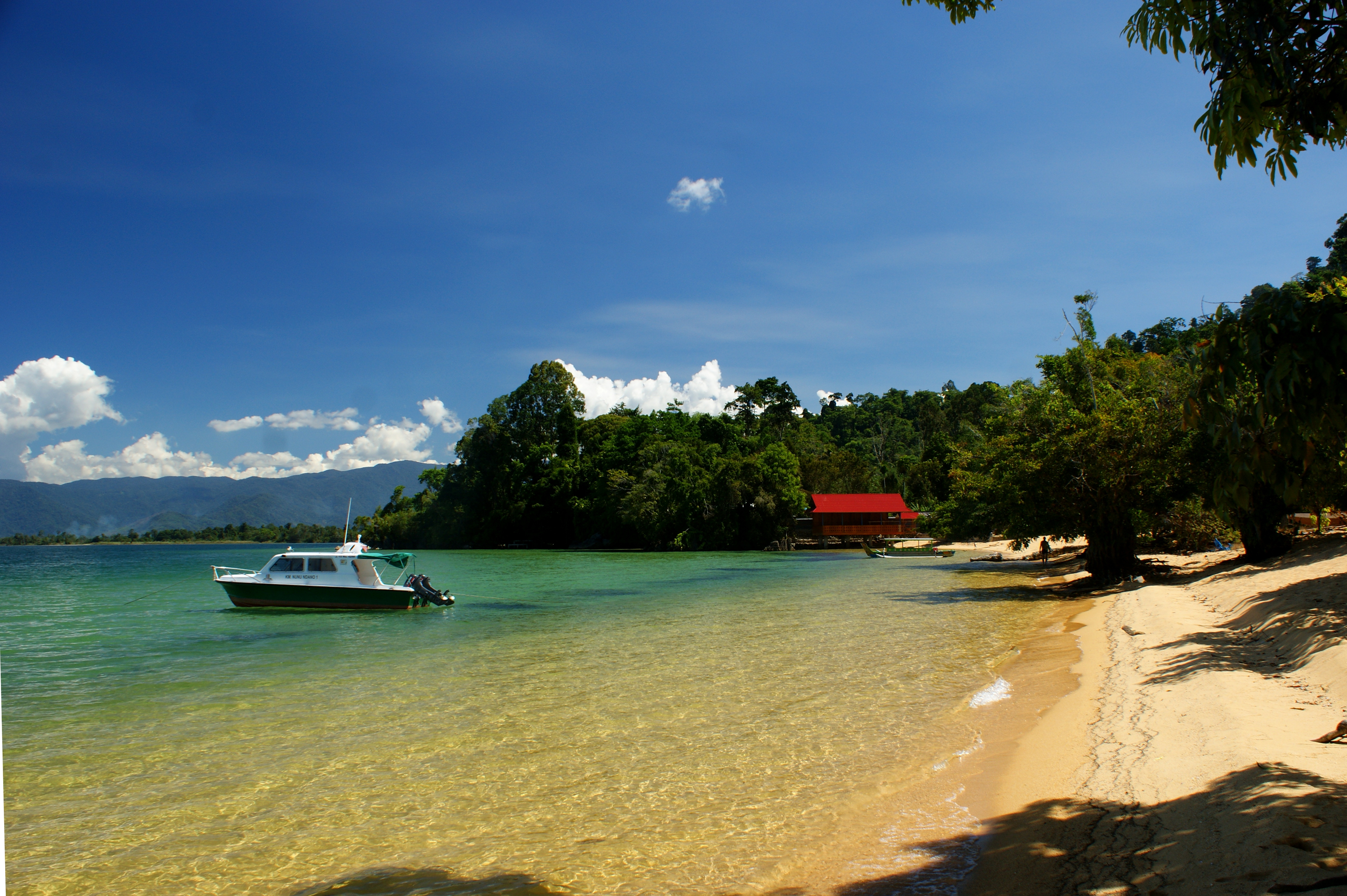 Siuri Beach at Danau Poso (Poso Lake), near Tentena